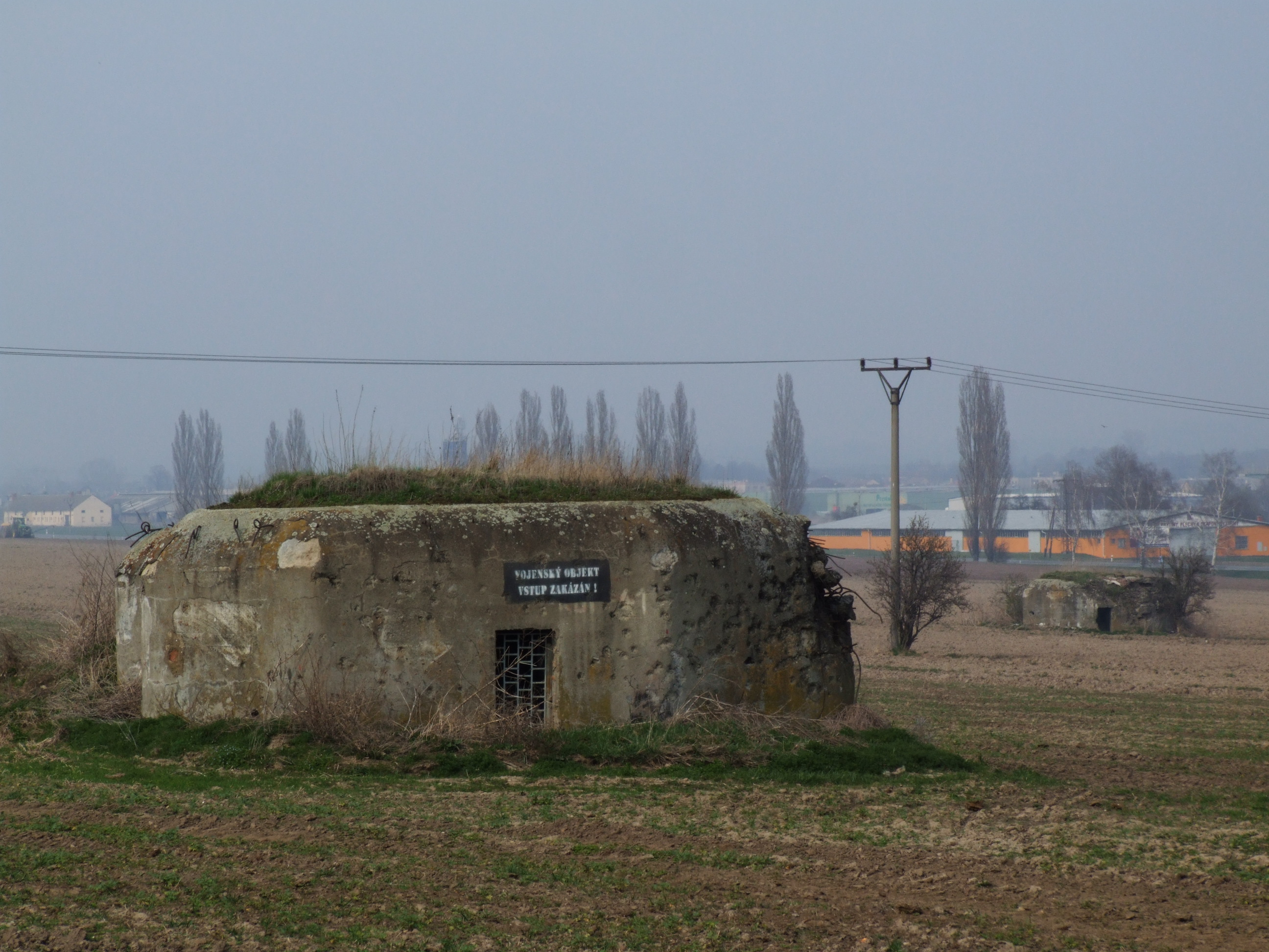 Czechoslovak border fortifications near Opava (Troppau), Czech Silesia